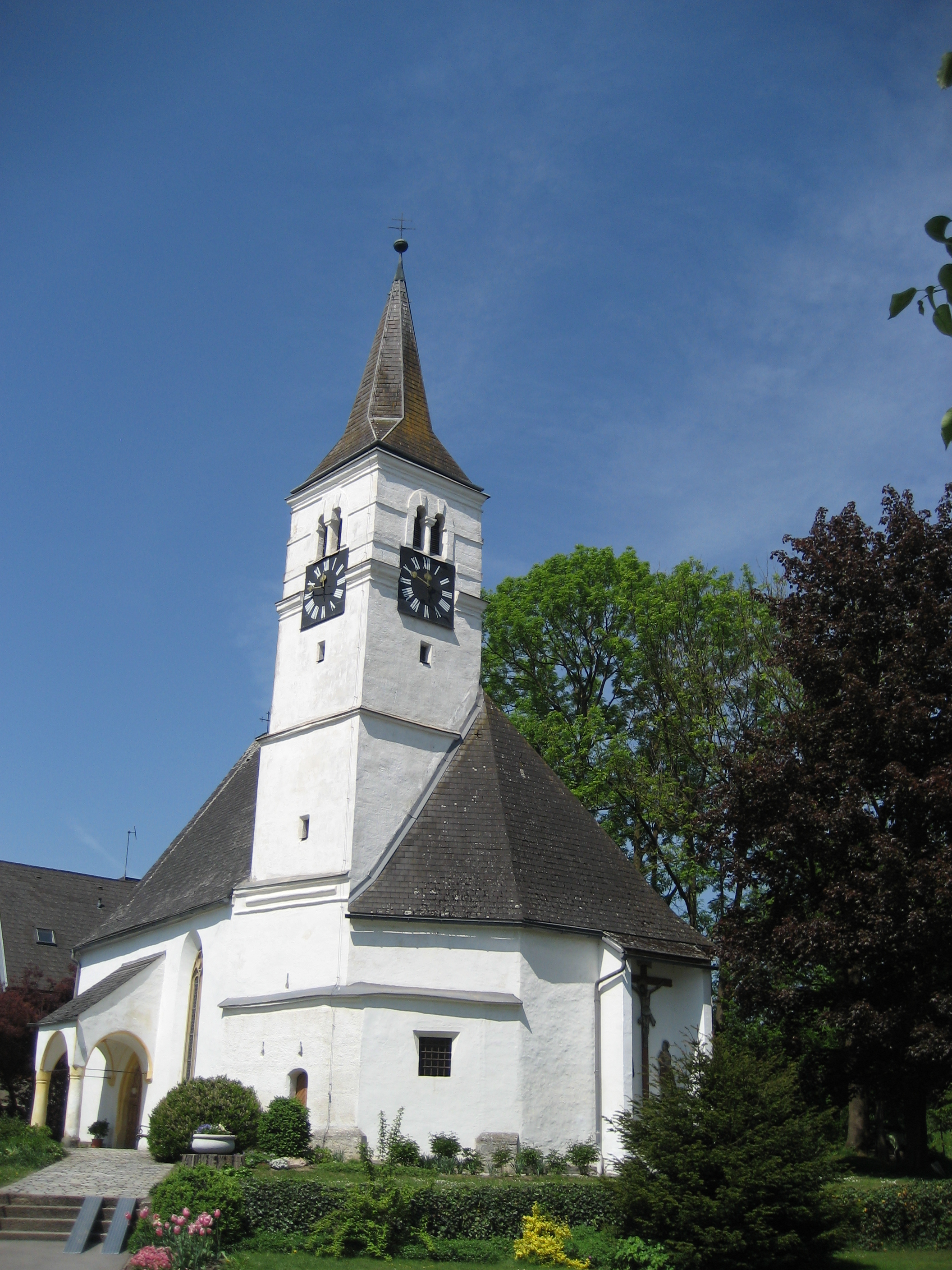 Dietach, Upper Austria, Austria, Europe: Subsidiary church in "Stadlkirchen" district.